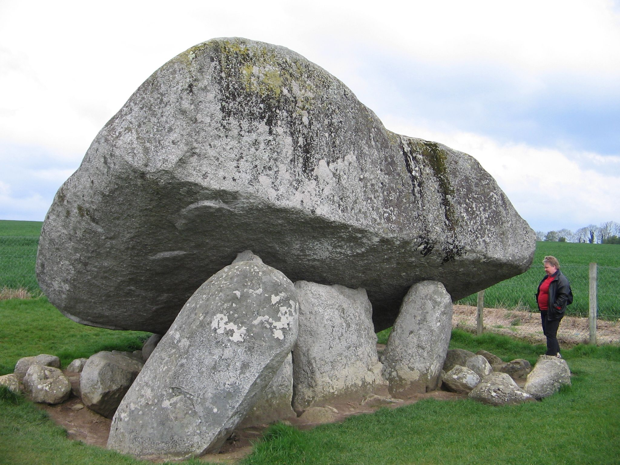 Portal tomb Brownshill, near Carlow, Ireland